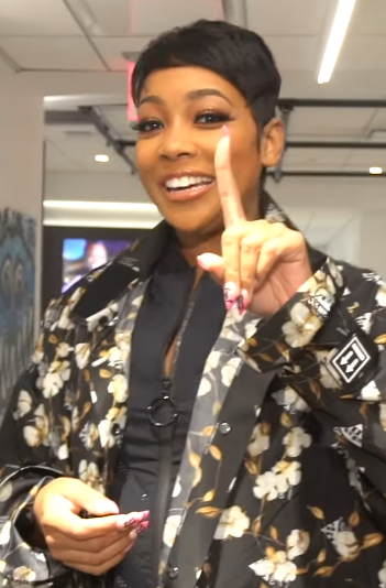 "Off The Record with Monica"